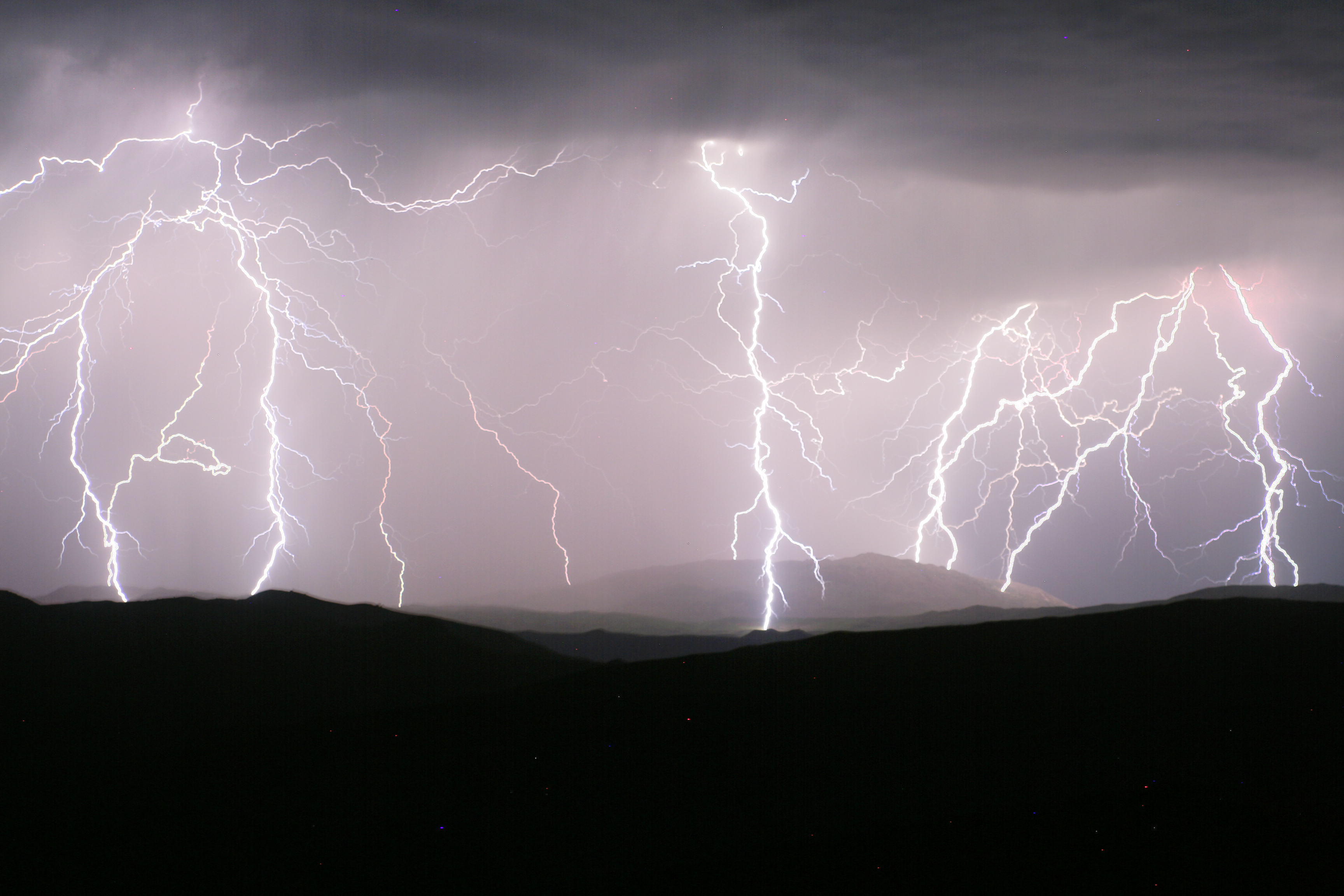 Ilic Lightning